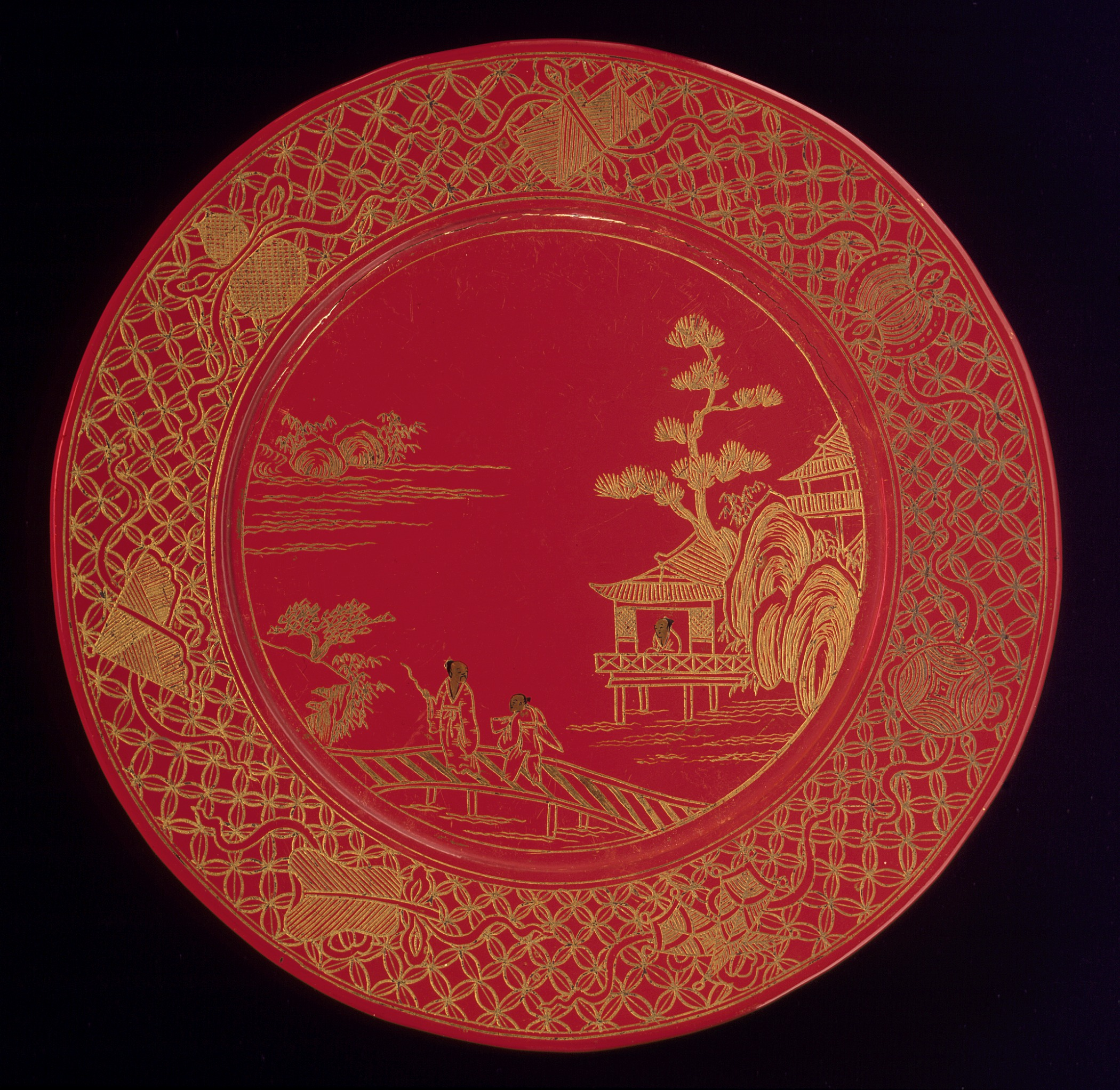 Ryukyu Islands, about 1700-1800 Furnishings; Serviceware Red lacquer on wood core with incised and gold-filled decoration (chinkin in Japanese, qiangjin in Chinese) Gift of Mr. and Mrs. Leo Krashen (M.80.109.2)